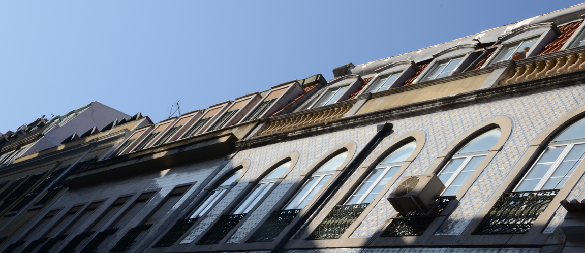 Foto da fachada da Escola Superior de Tecnologias e Artes de Lisboa.